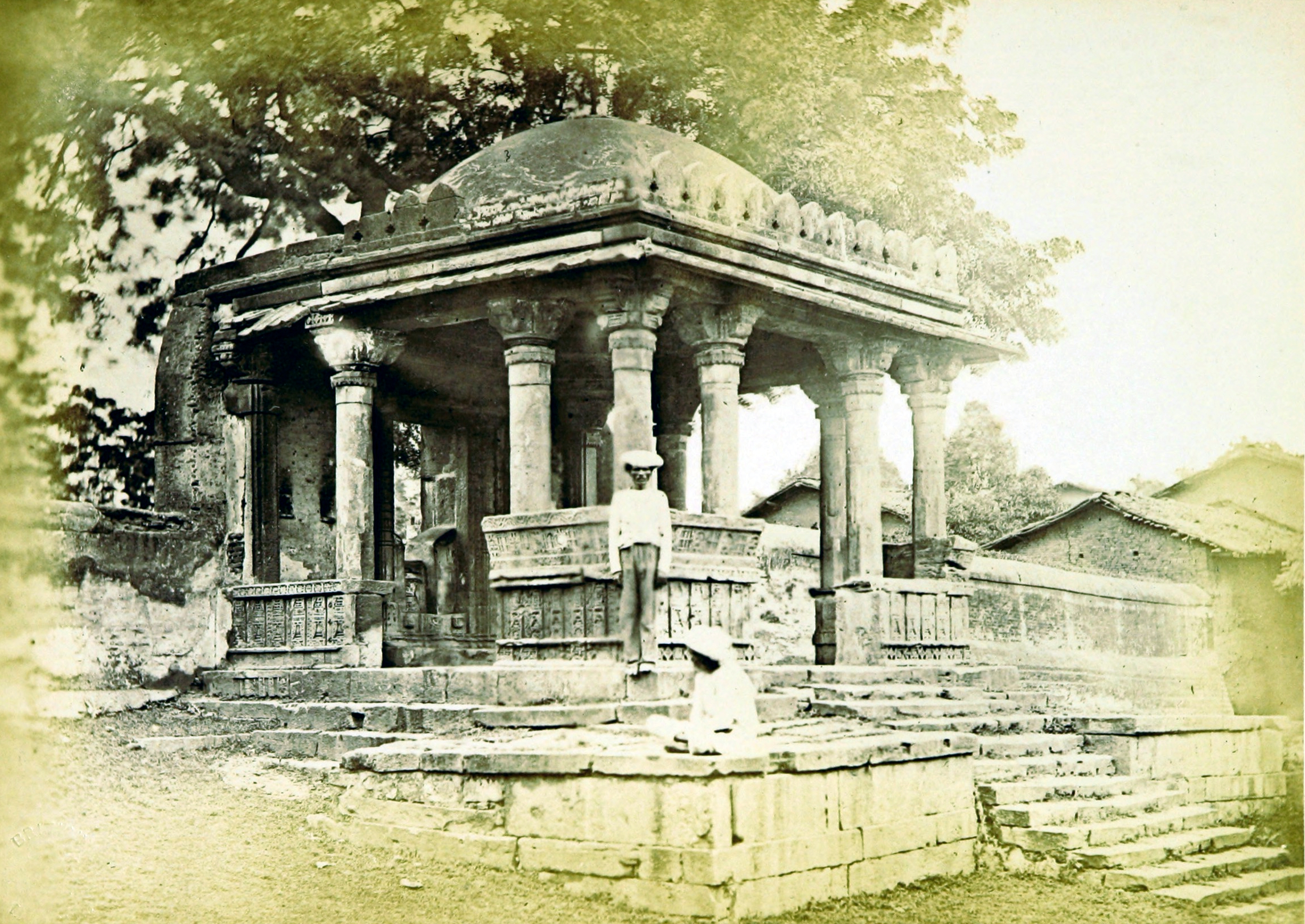 Image taken from: Title: "Architecture at Ahmedabad, the Capital of Goozerat, photographed by Colonel Biggs, ... With an historical and descriptive sketch, by T. C. H., ... and architectural notes by J. Fergusson, etc" Author: HOPE, Theodore Cracraft - Sir, K.C.S.I Contributor: BIGGS, Thomas. Contributor: FERGUSSON, James - Architect Shelfmark: "British Library HMNTS 10057.f.17.", "British Library OC V 6665" Page: 137 Place of Publishing: London Date of Publishing: 1866 Issuance: monographic Identifier: 001730119 Note: The colours, contrast and appearance of these illustrations are unlikely to be true to life. They are derived from scanned images that have been enhanced for machine interpretation and have been altered from their originals. If you wish to purchase a high quality copy of the page that this image is drawn from, please order it here. Please note that you will need to enter details from the above list - such as the shelfmark, the page, the book's volume and so on - when filling out your order. Following this or the link above will take you to the British Library's integrated catalogue. You will be able to download a PDF of the book this image is taken from, as well as view the pages up close with the 'itemViewer'. Click on the 'related items' to search for the electronic version of this work. Click here to see all the illustrations in this book and click here to browse other illustrations published in books in the same year. Please click on the tags shown on the right-hand side for other ways to browse the illustrations.